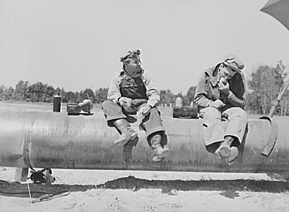 Workers on the Big Inch pipeline. No known restrictions. For information, see U.S. Farm Security Administration/Office of War Information Black & White Photographs(